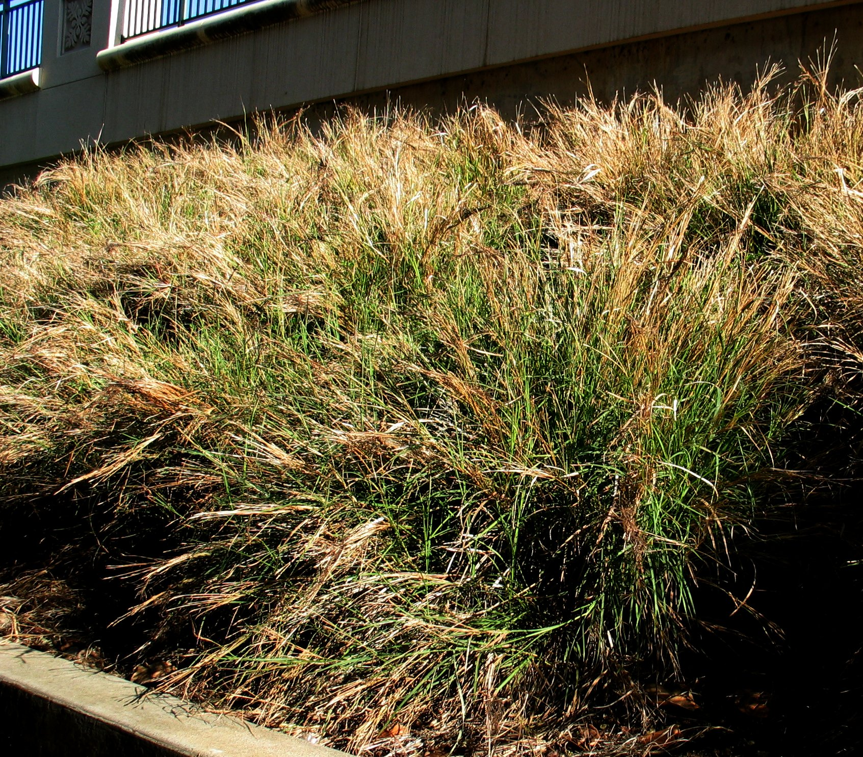 Pili or Twisted beardgrass Poaceae (Gramineae) Possibly indigenous to the Hawaiian Islands Oʻahu (Cultivated) Pili was used for thatching roofs by early Hawaiians who also enjoyed the fresh scent of this grass. NPH00004